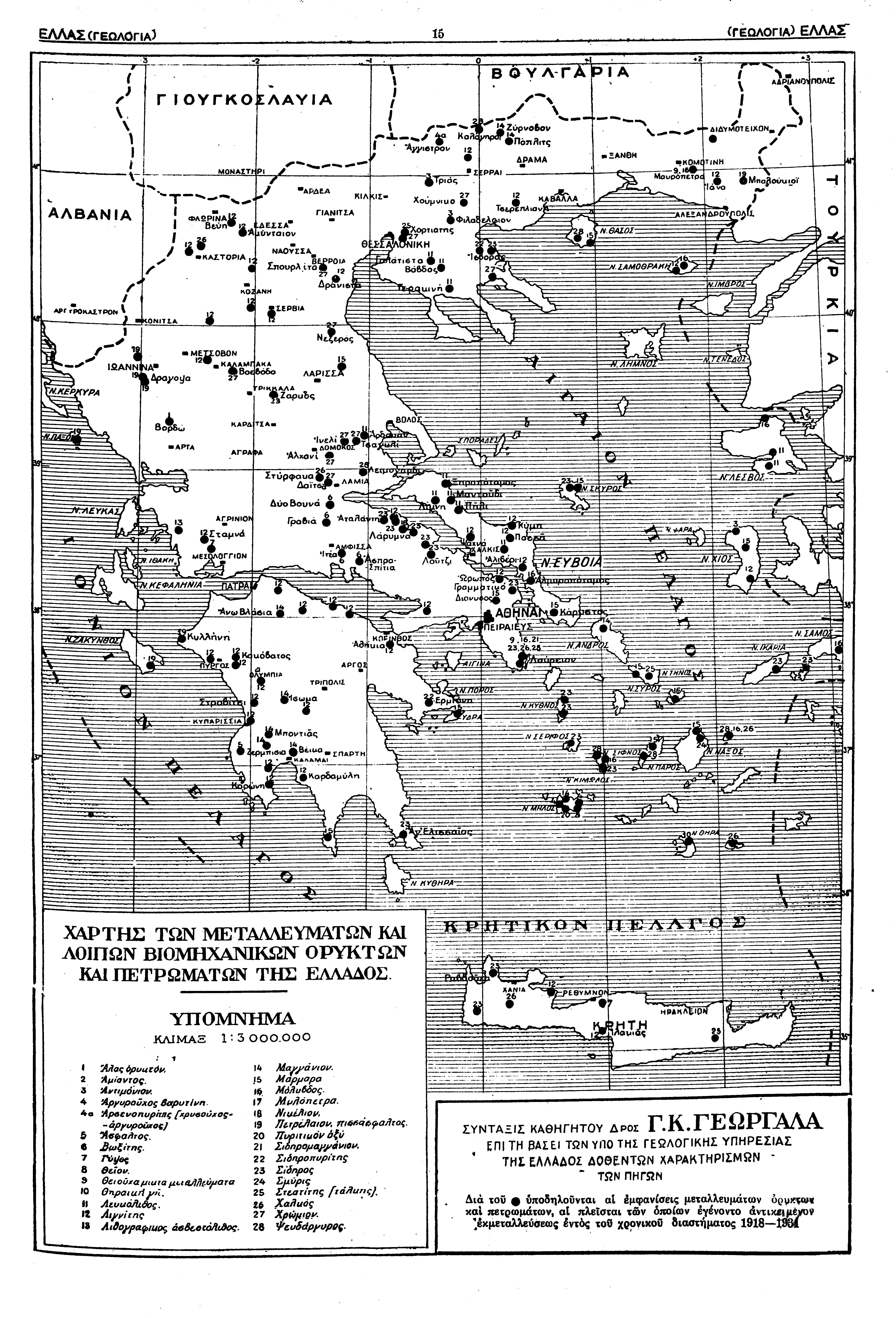 Map of ores and minerals of Greece